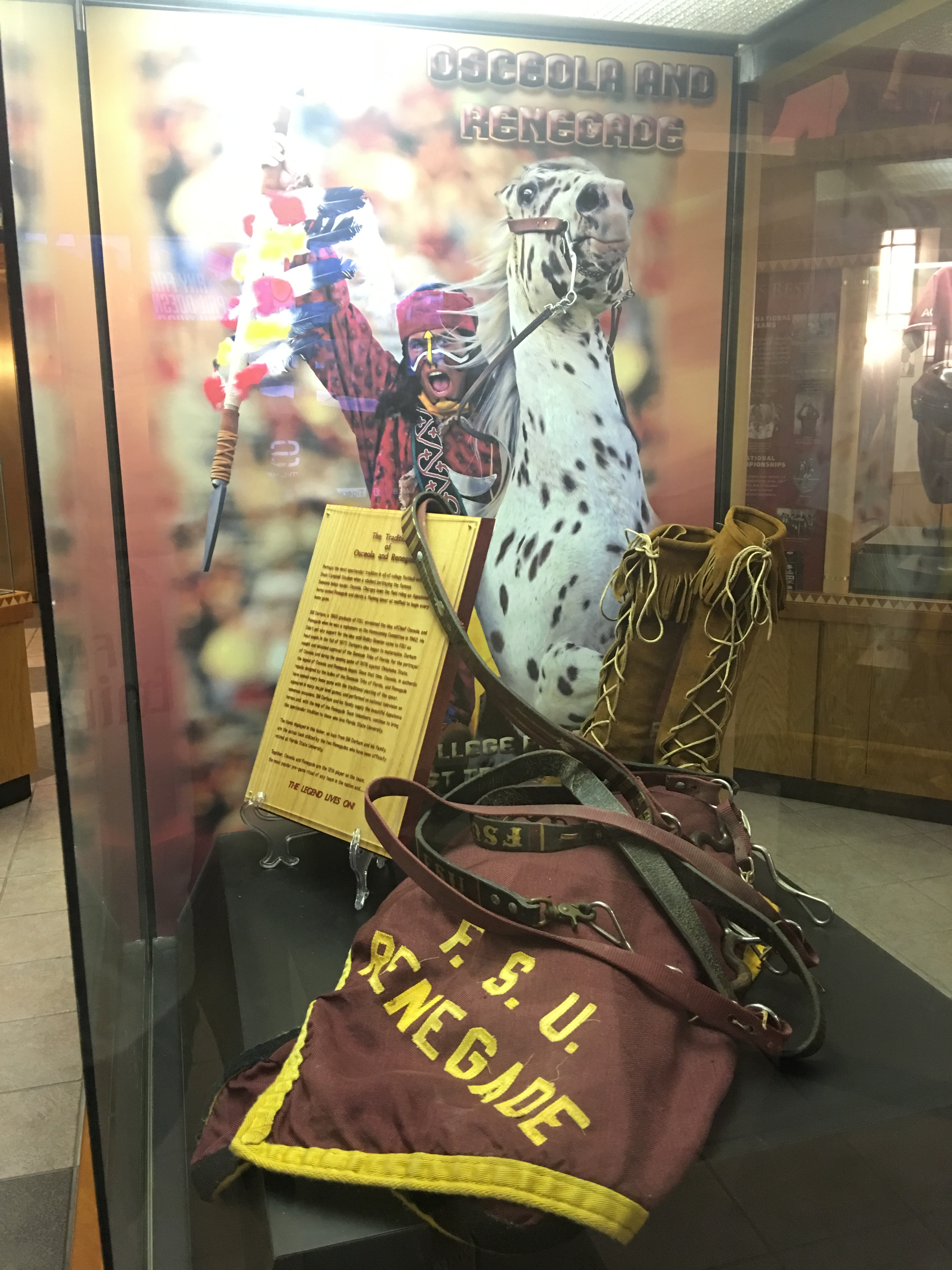 Osceola and Renegade display at the Moore Athletic Center